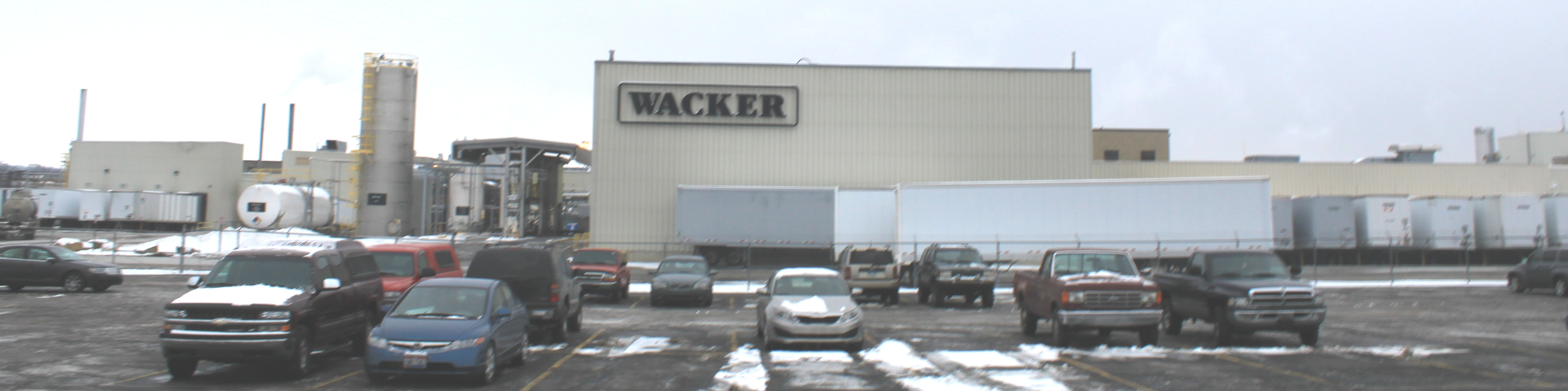 Wacker Chemical US headquarters, 3301 Sutton Road, Raisin Township (Adrian), Michigan.